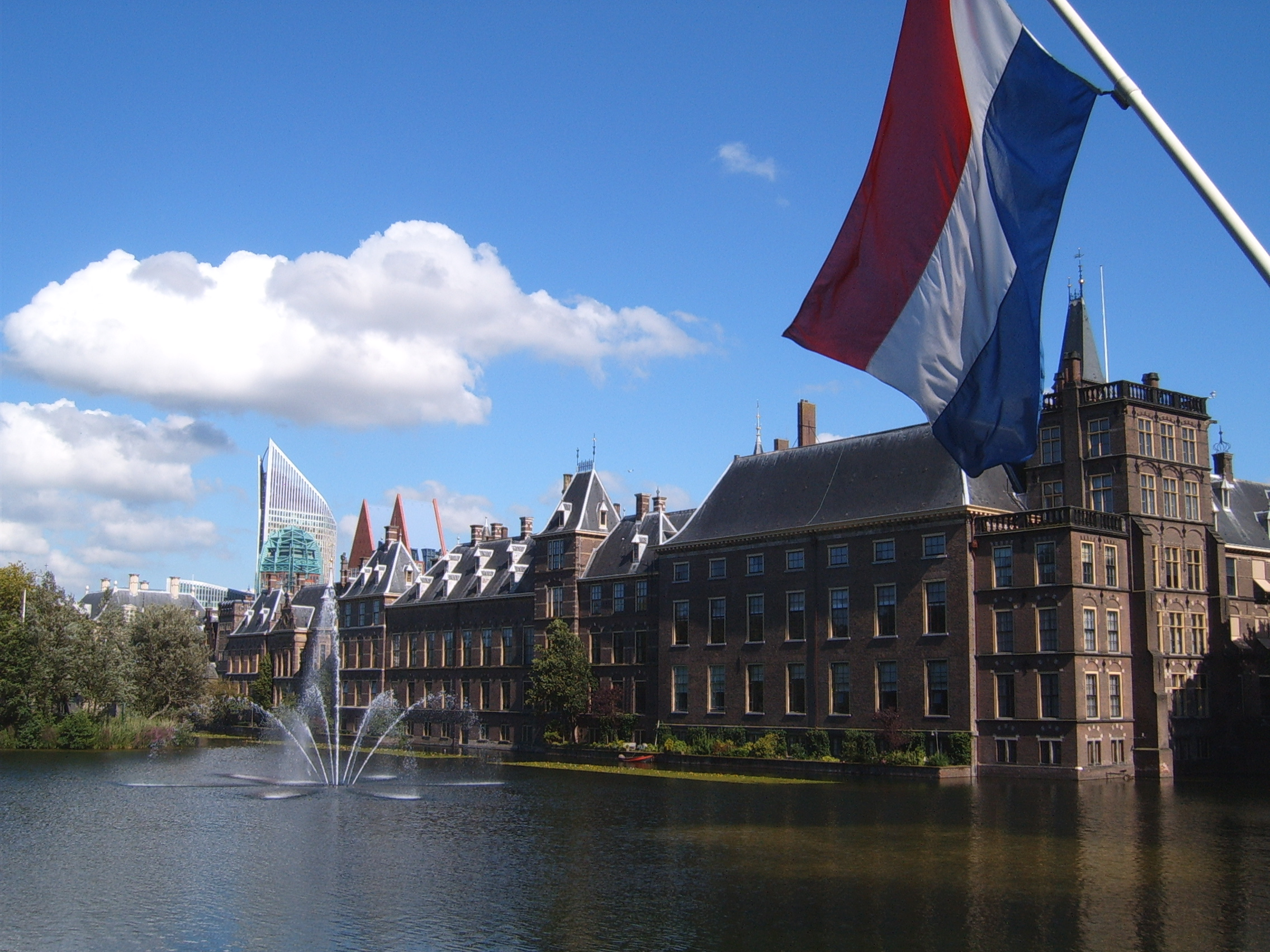 Binnenhof, Hofvijver and flag of the Netherlands, The Hague (Netherlands)